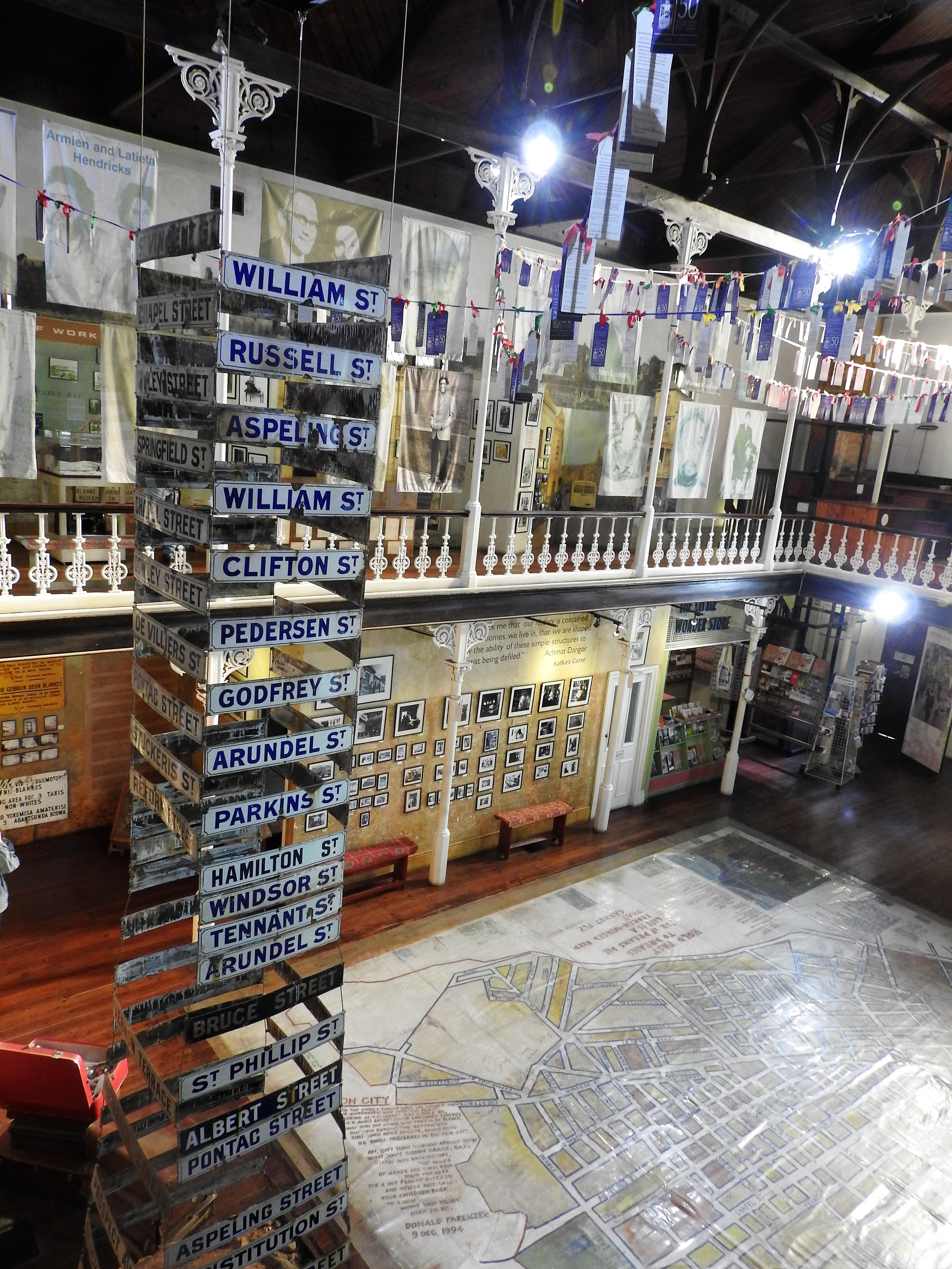 Main room, from balcony, including street signs